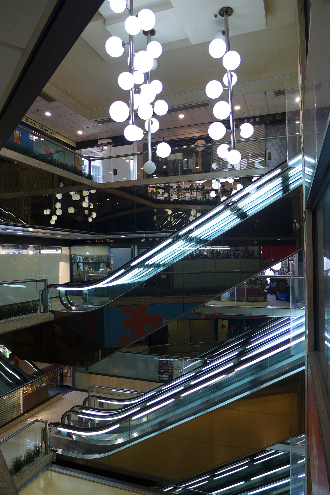 Hollywood Centre Atrium